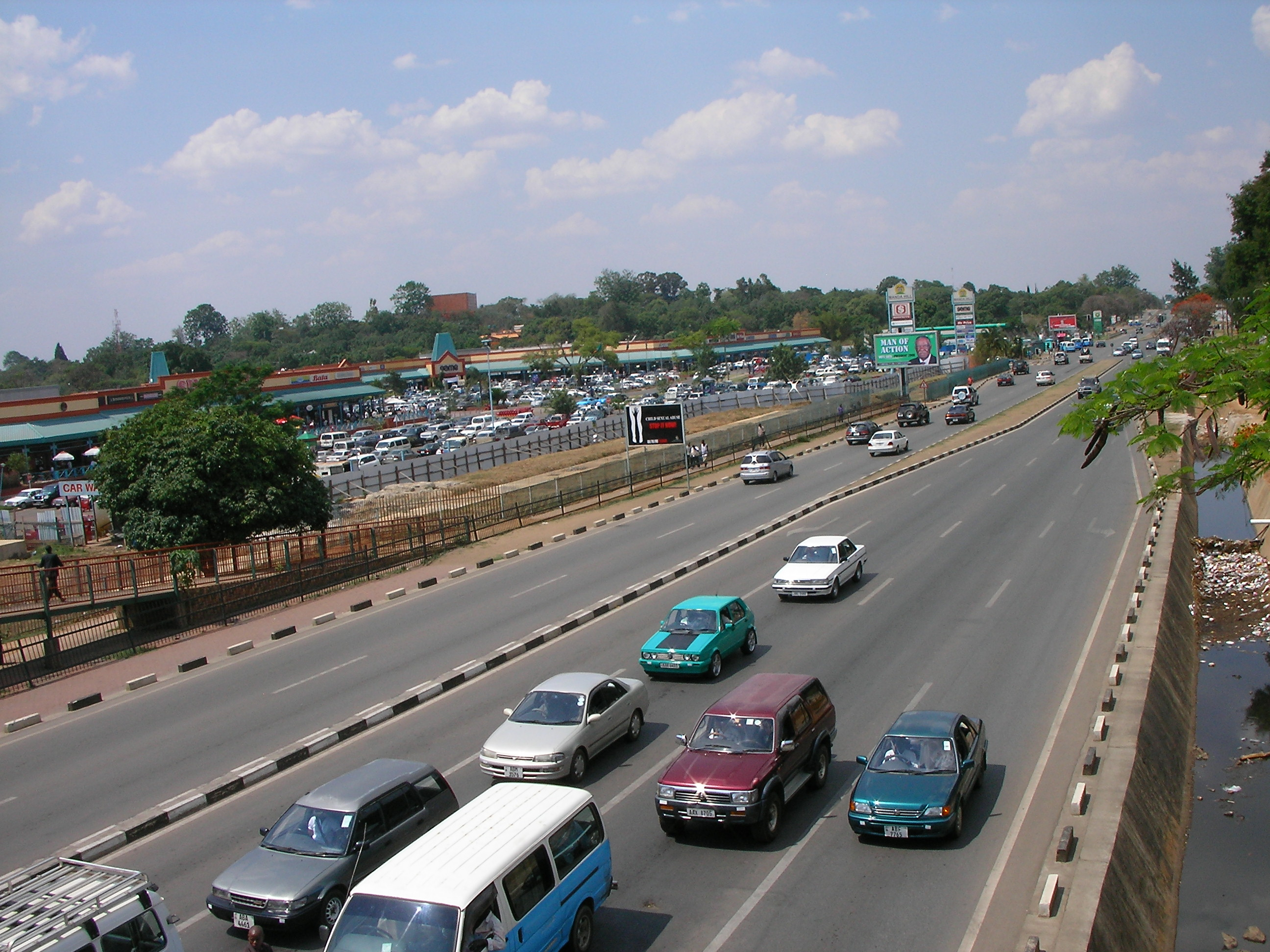 Looking northeast over the Great East Road in Lusaka, Zambia towards Manda Hill Shopping Centre. Photo is taken from pedestrian overpass at intersection of Great East Rd and Addis Ababa Drive.